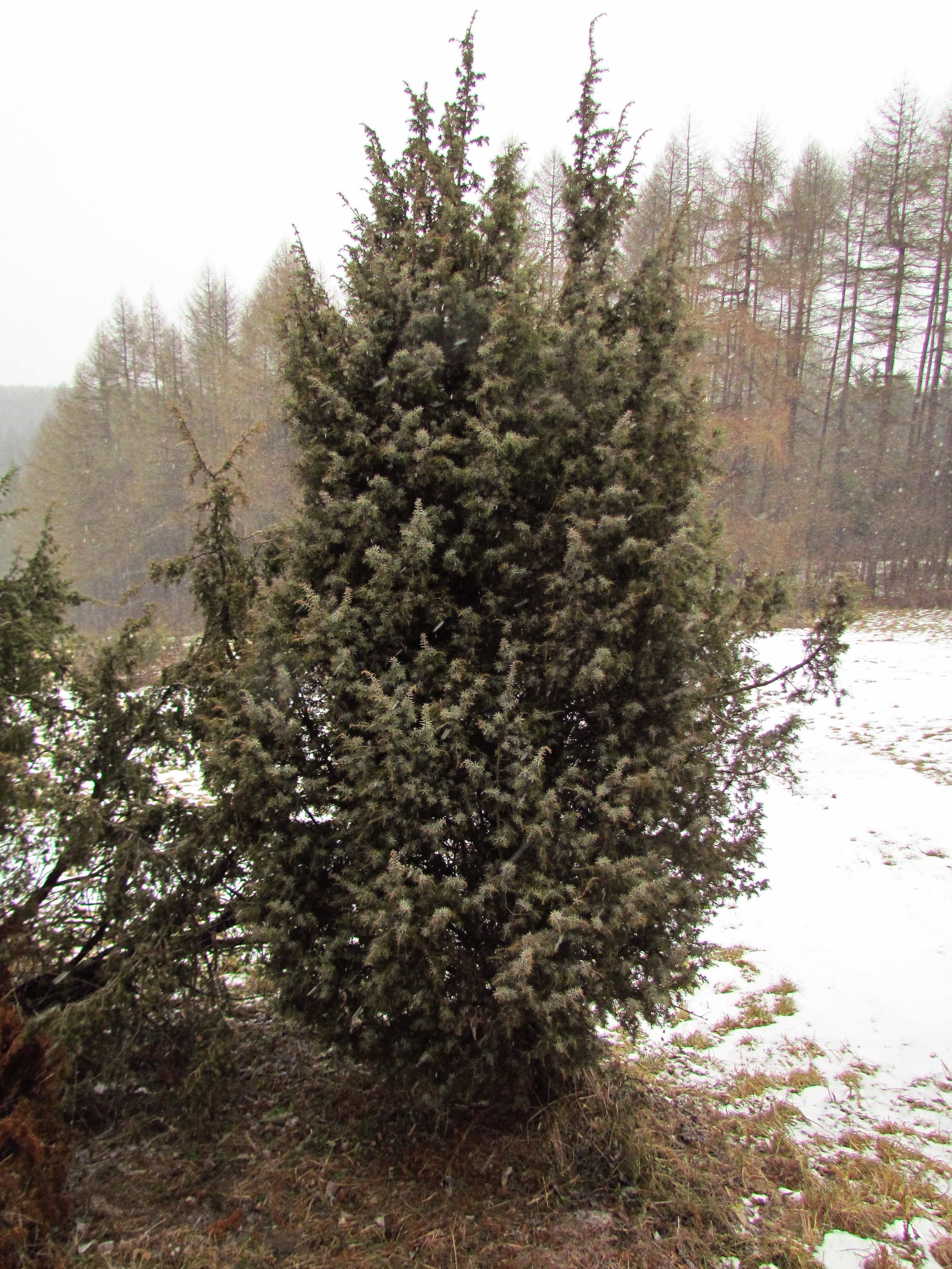 Common Juniper Juniperus communis at the natural monument Jalovec, Číchov, Třebíč District, Czech Republic.